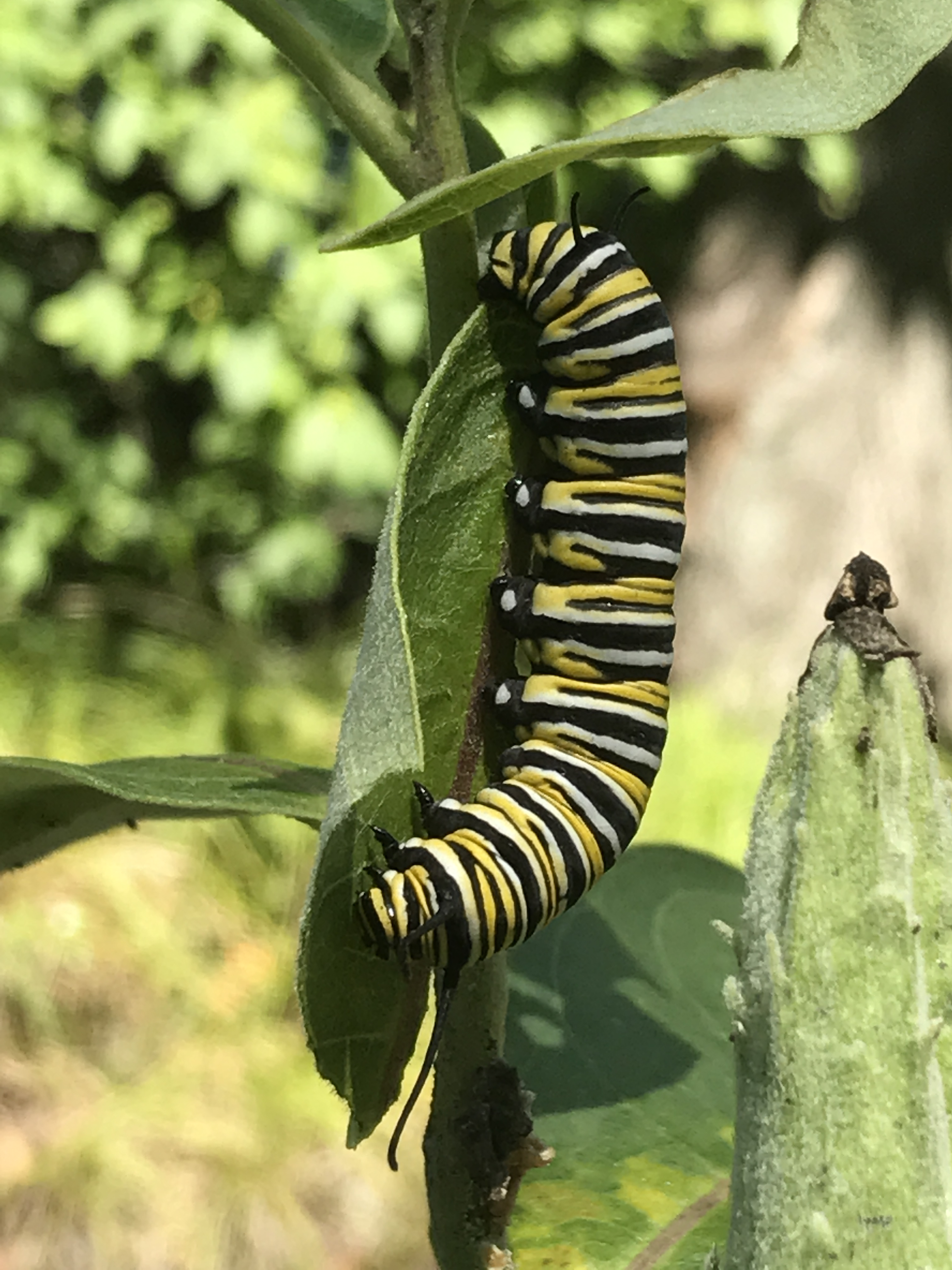 Milkweed is the nursery for caterpillars who only eat this plant and the flowers are a nectar source for adults. If this nursery goes away, the population declines. Photo by Bradly Potter/USFWS